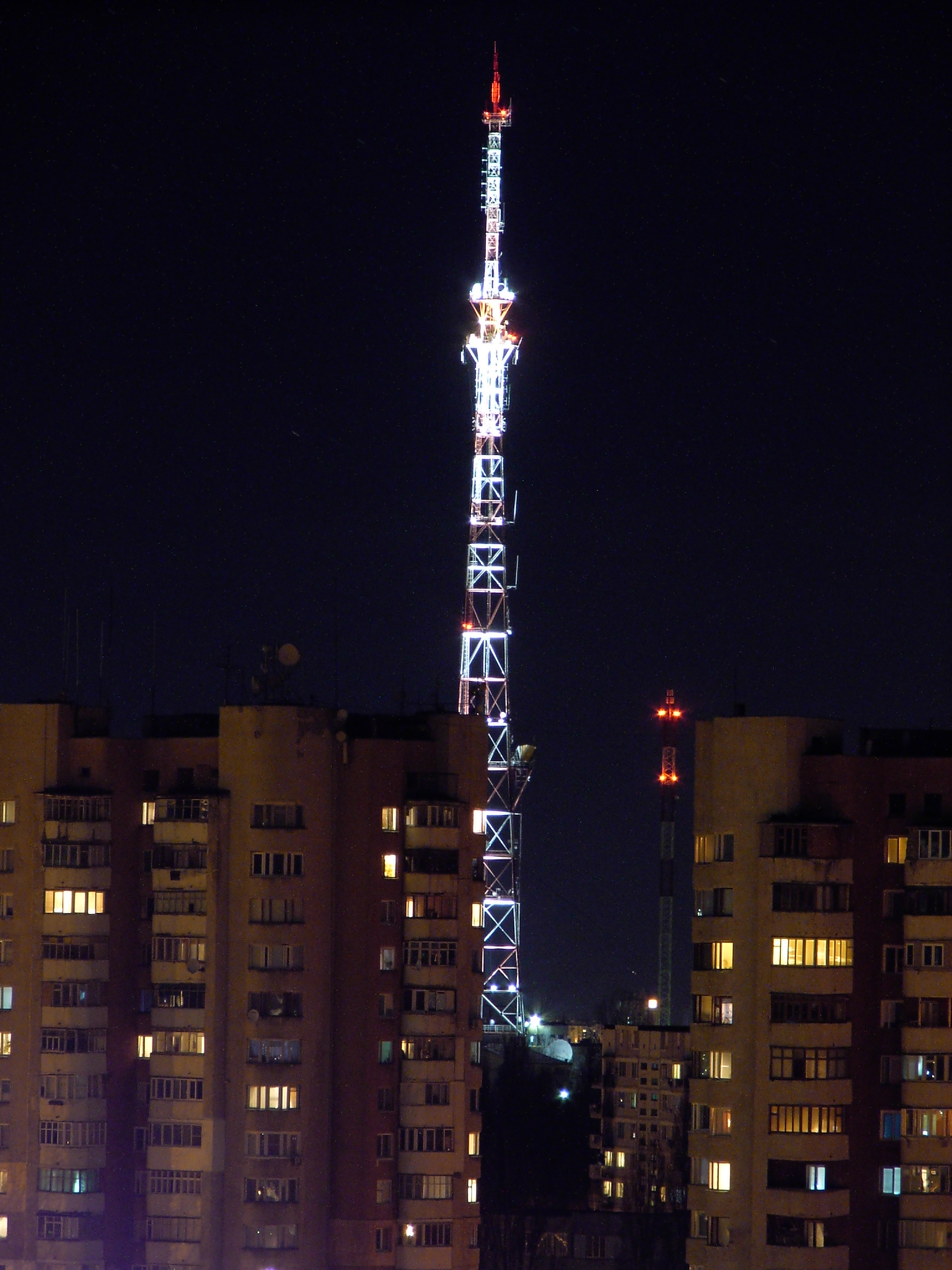 Chisinau Television tower at night, december 2009. NIT tower is seen nearby.